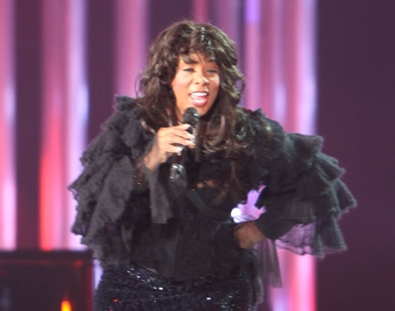 Donna Summer at The Nobel Peace Price Concert 2009